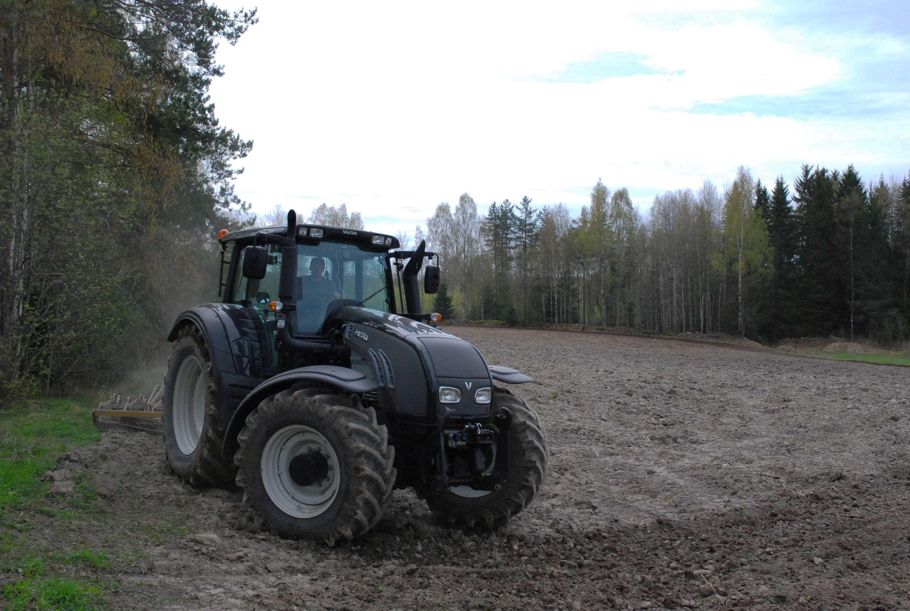 A disk harrow is pulled by a Valtra T183 in Lemi, Finland.